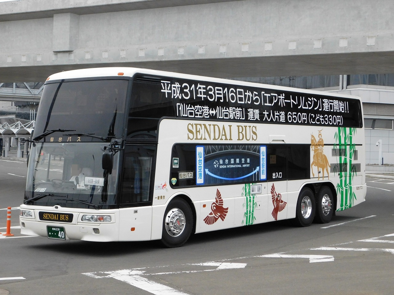 Sendai bus Mitsubishi Fuso Aero King (MU612TX)Airport Limousine Bus (Sendai Airport-Sendai Station)